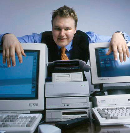 Kim Dotcom (born Kim Schmitz), also known as Kimble, and Kim Tim Jim Vestor. Internet entrepreneur and founder of the Megaupload and Mega file hosting services. Photo taken in September 1996 in Kim's loft in Munich-Giesing, Germany.